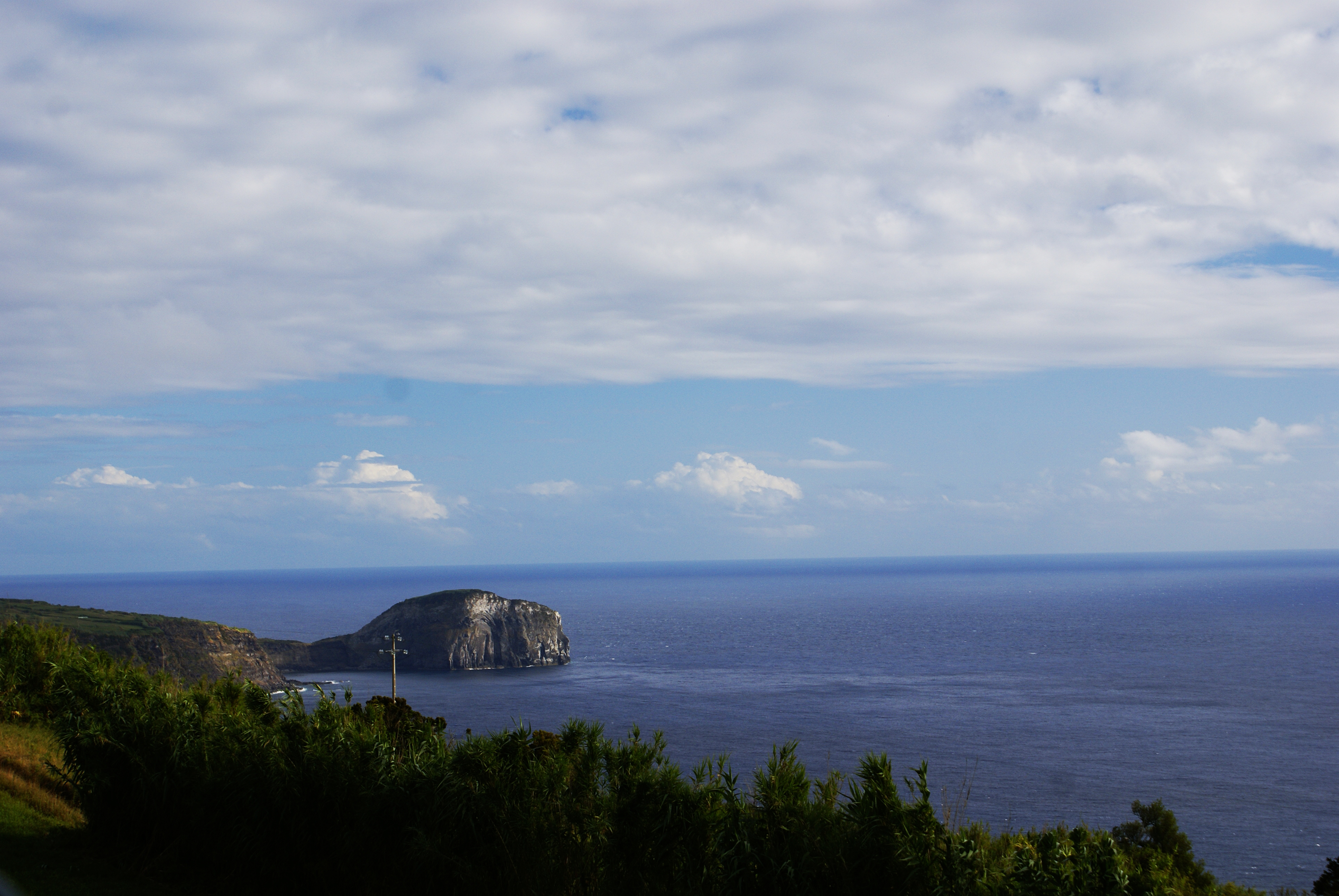 Morro de Castelo Branco, Castelo Branco, concelho da Horta, ilha do Faial, Açores, Portugal